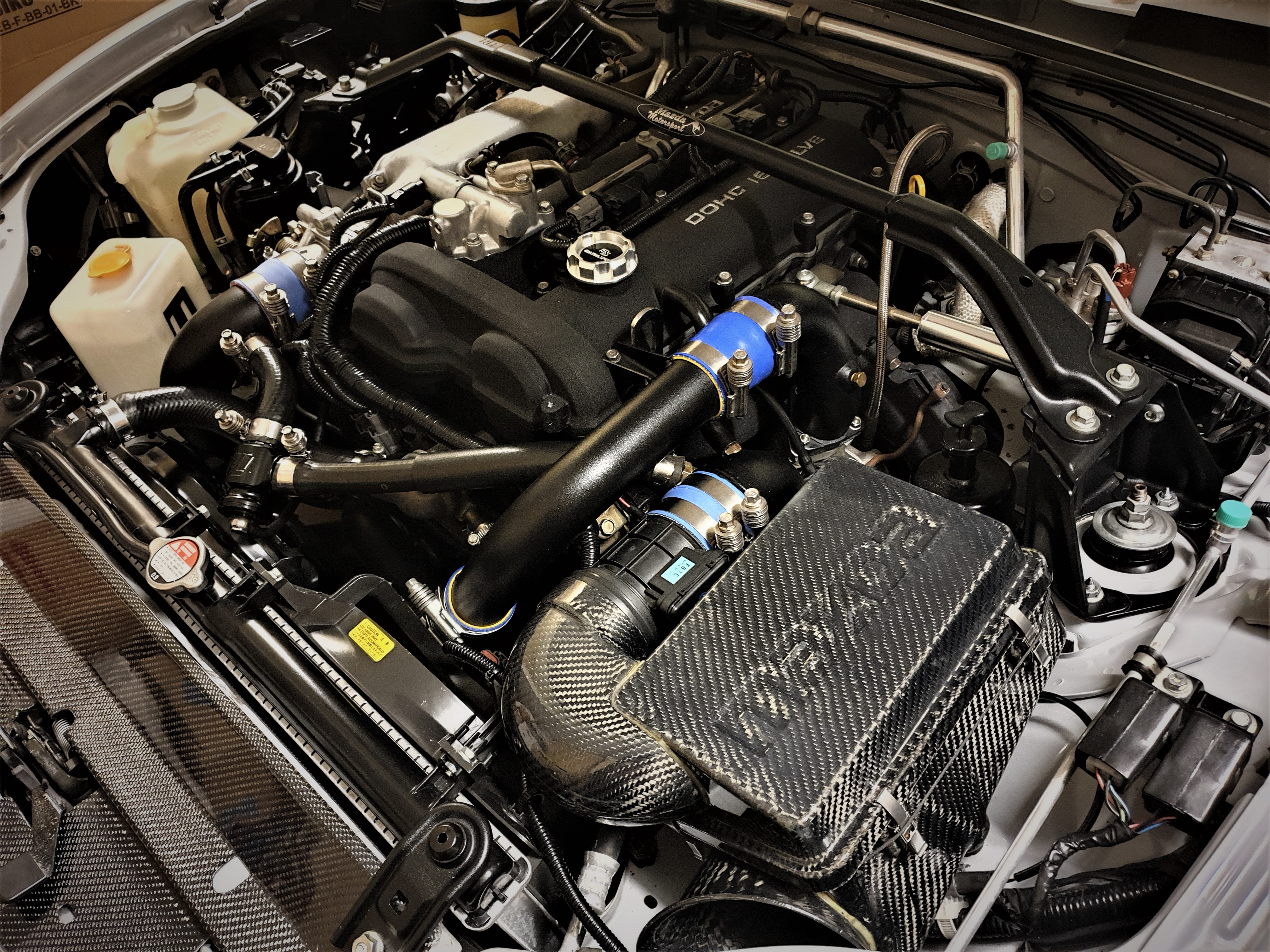 The unique engine bay of the MX-5 SP, showing some of the unique parts including the carbon-kevlar intake, intake piping, turbo and unique strut bar decal.